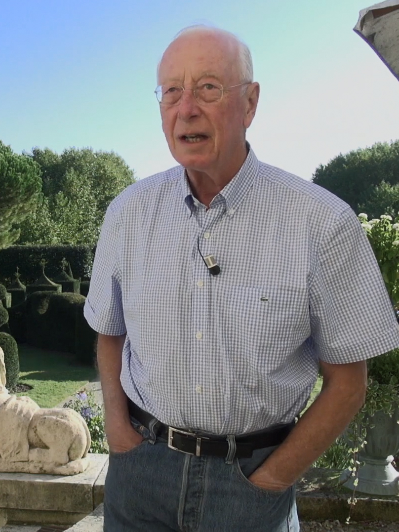 William Christie (2015)